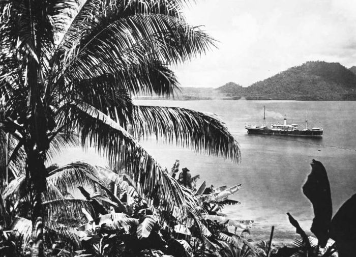 KPM steamer "Van Overstraten" at the Togian Islands